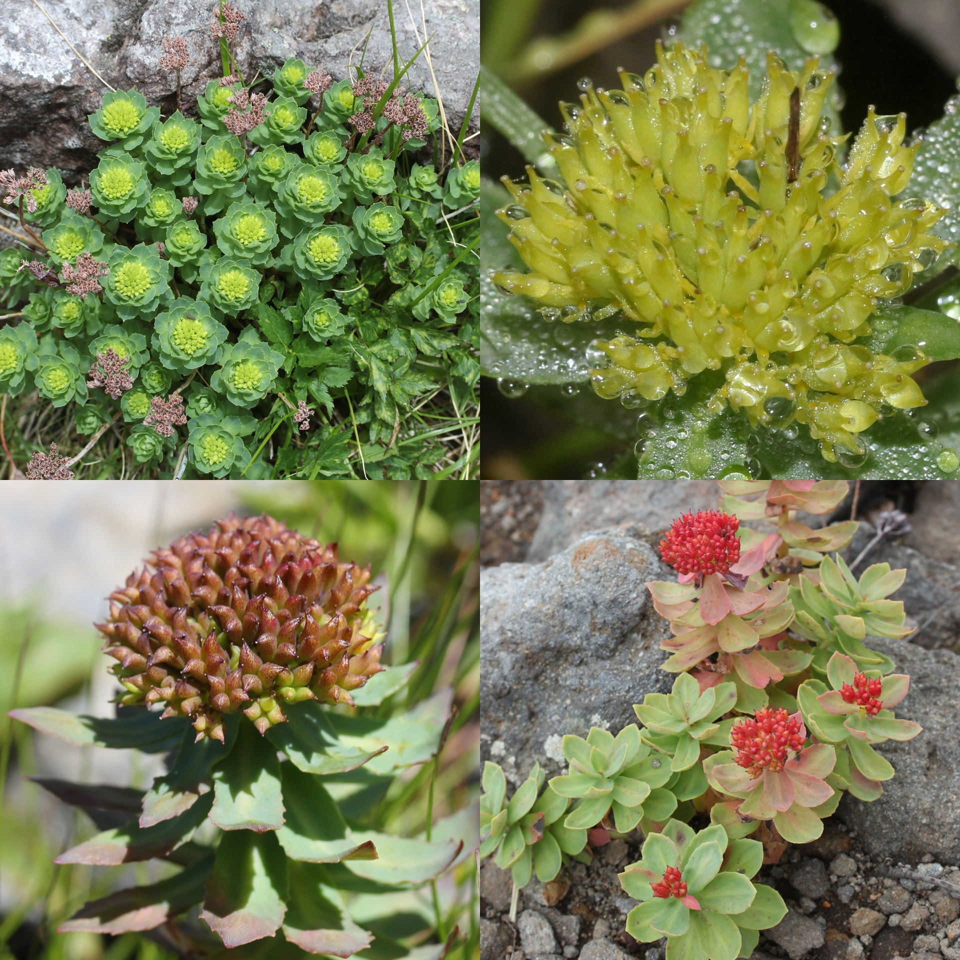 Montage of Rhodiola rosea